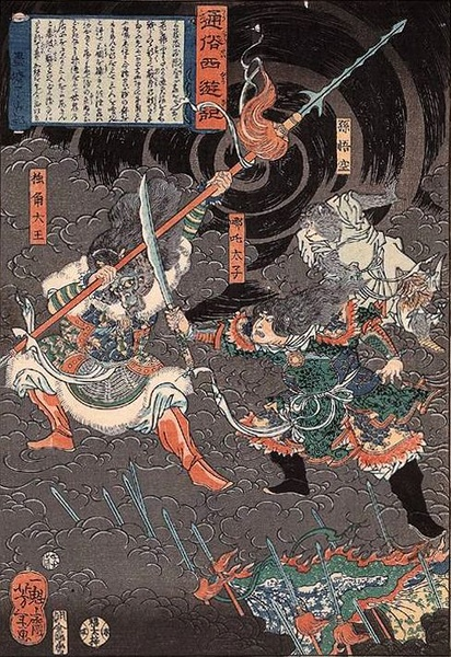 A scene of chapter 5 of Journey to the West. Prince Nezha fighting the One Horned Demon King